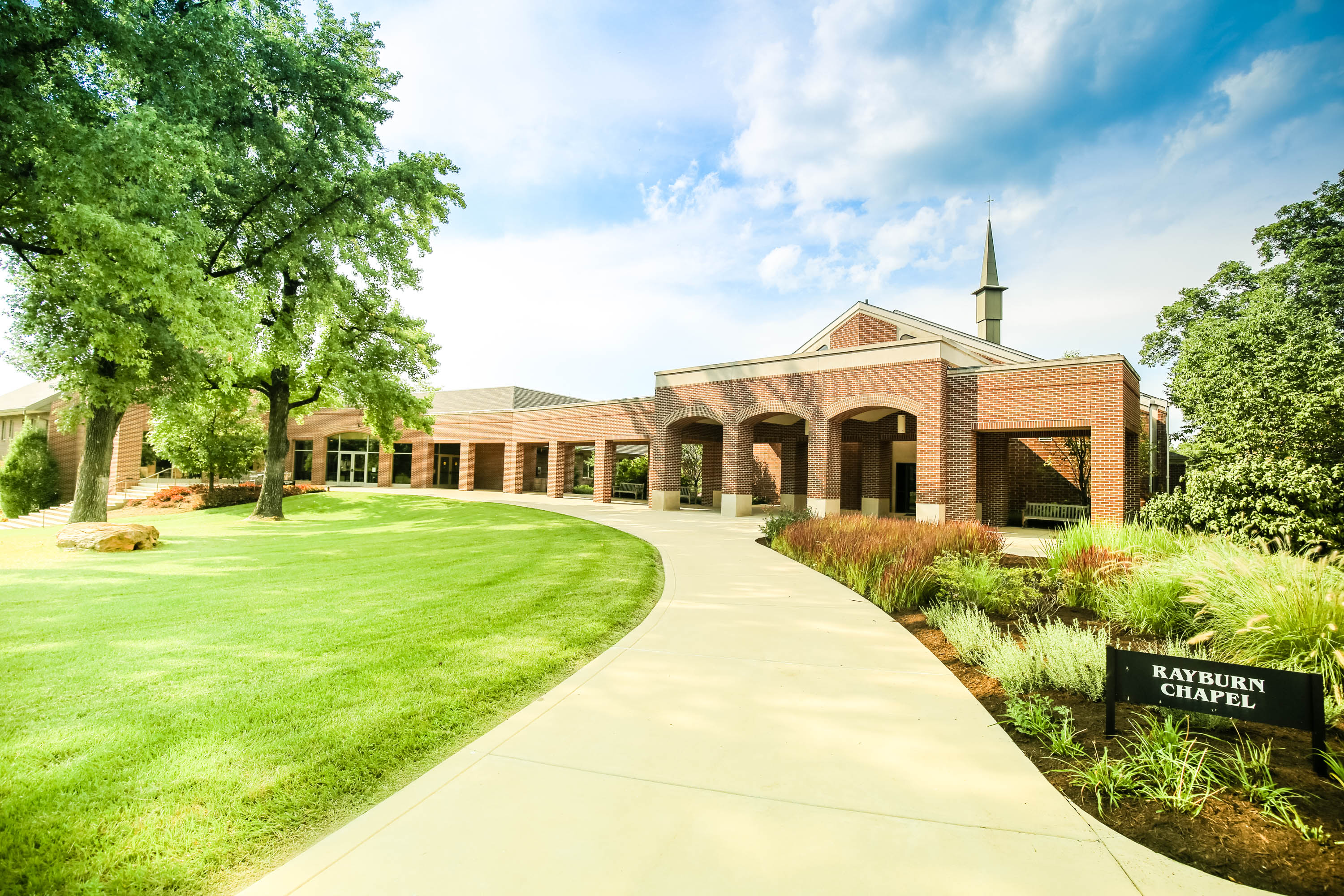 Covenant Theological Seminary Founders Hall